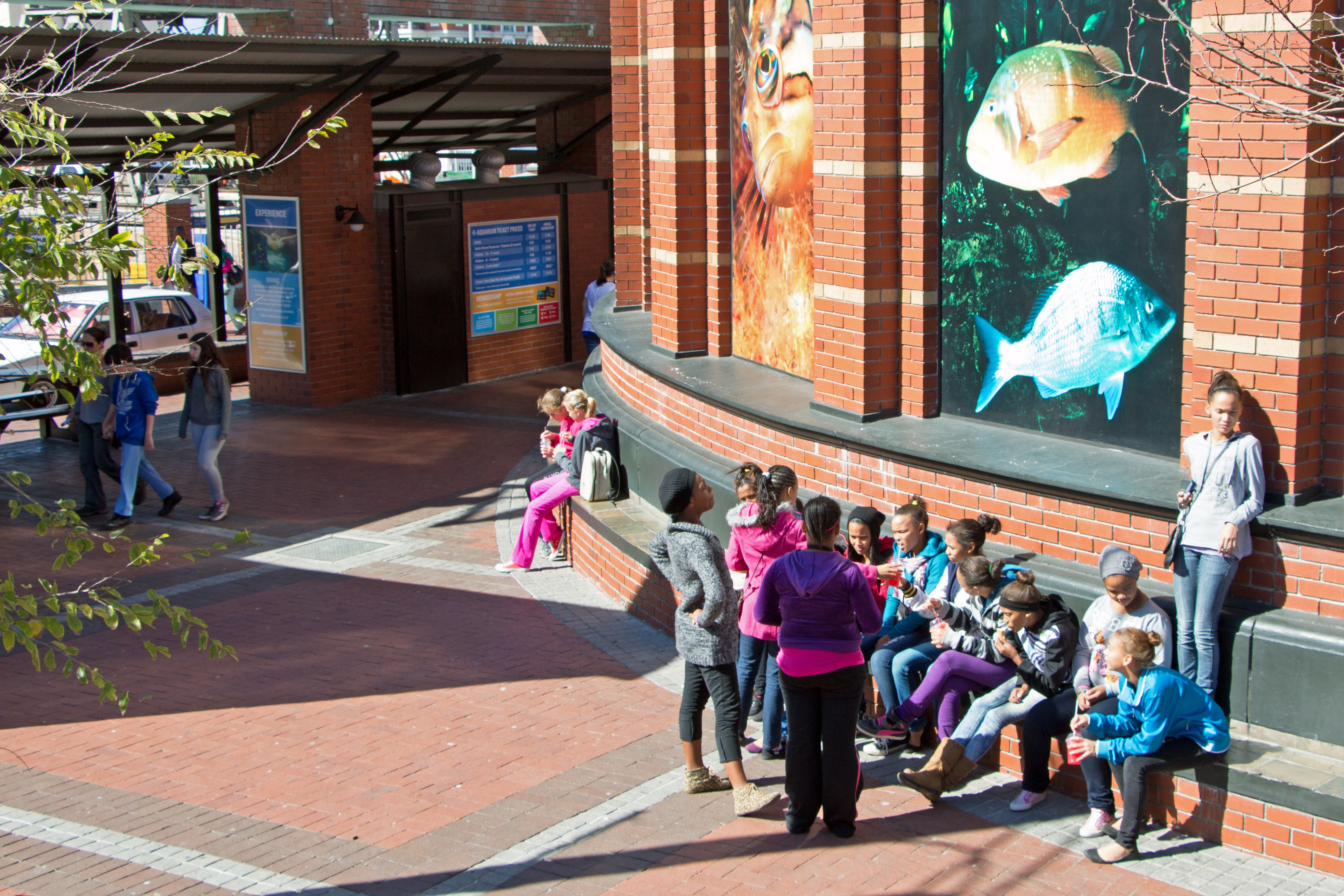 Entrance to the Two Oceans Aquarium, V&A Waterfront, Cape Town, South Africa